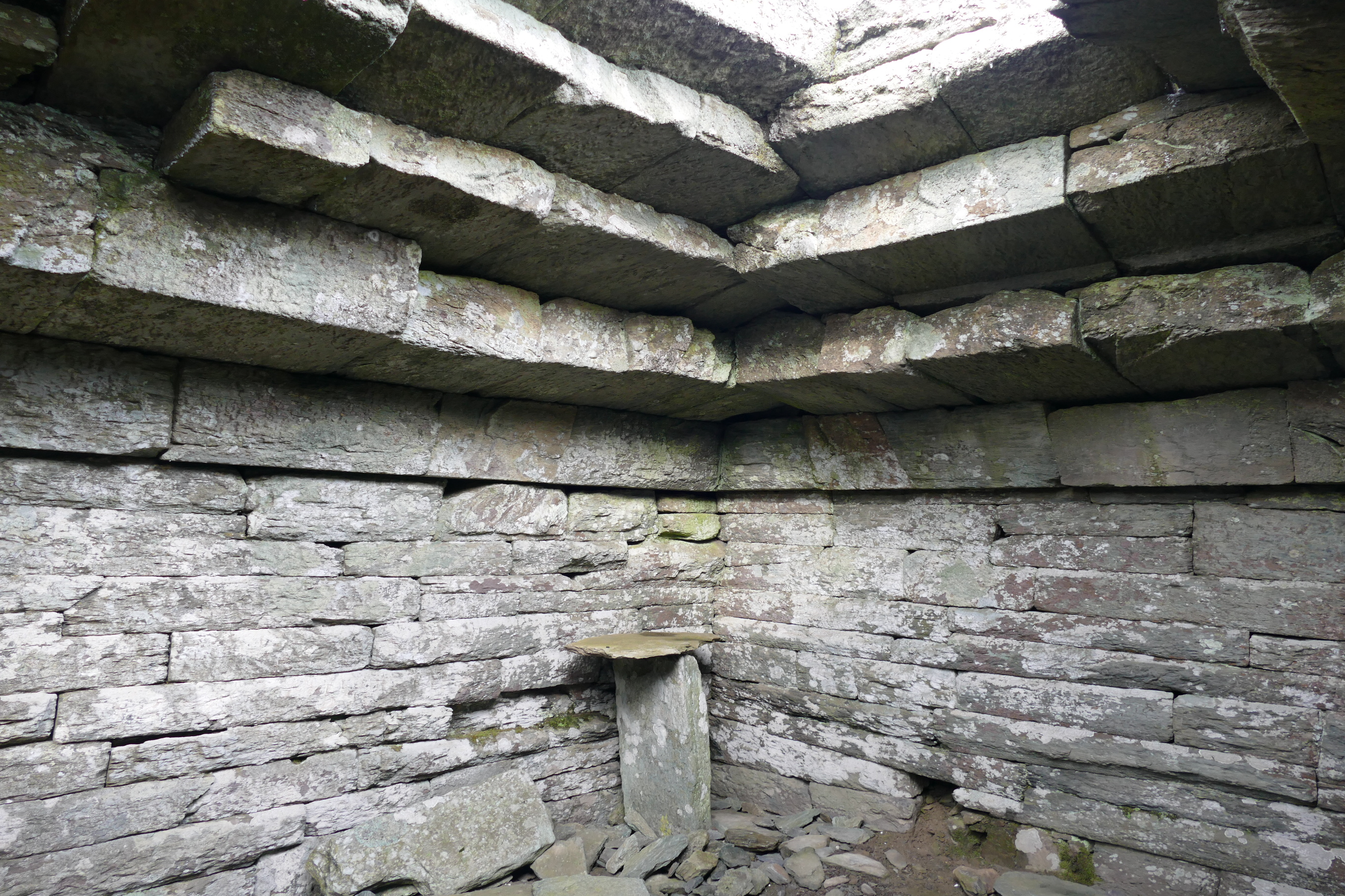 Ochi Dragon-house: North-East corner